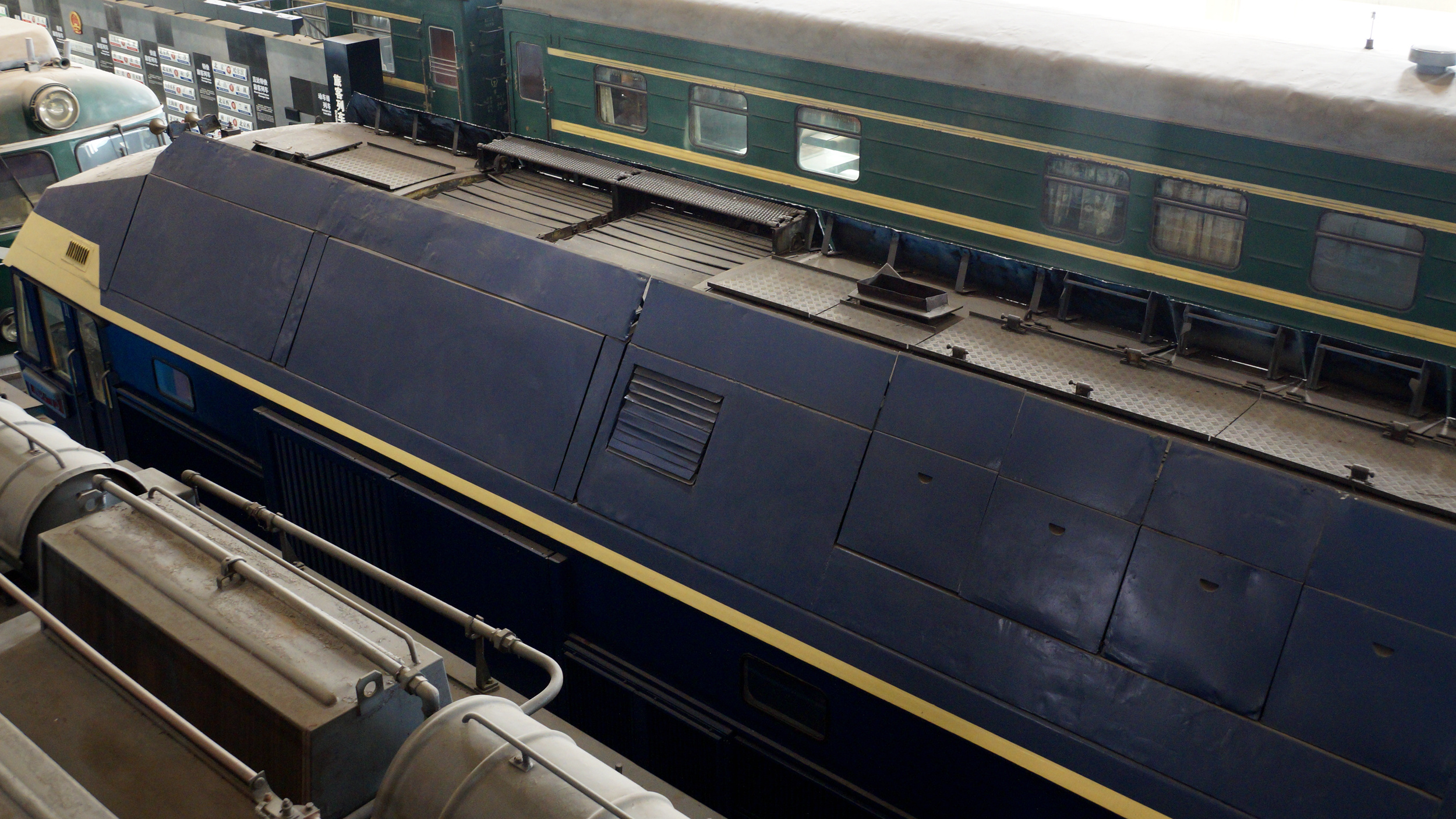 The roof of China Railways ND4-15 diesel locomotive, displayed in China Railway Museum in Beijing